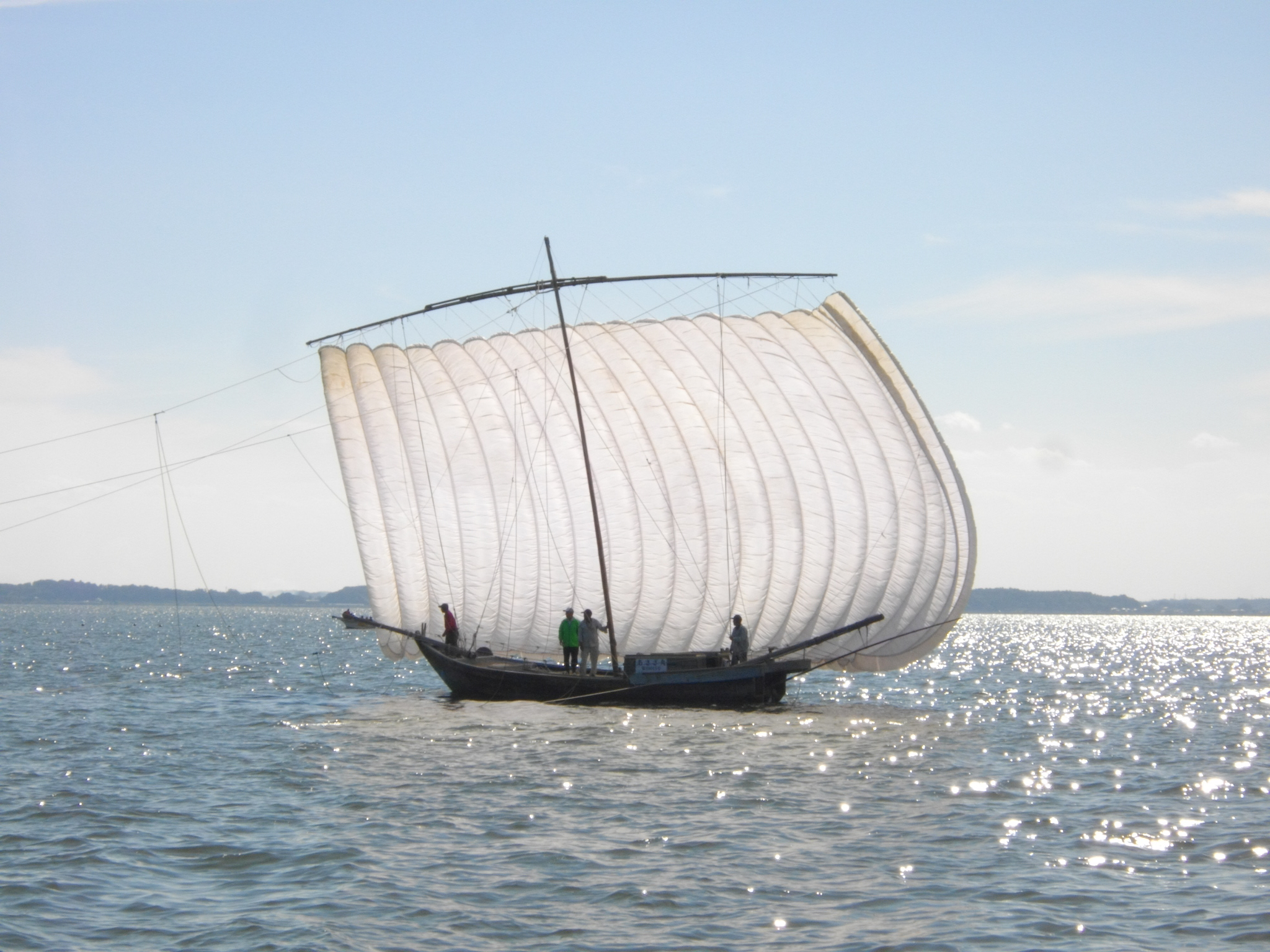 Hobikibune